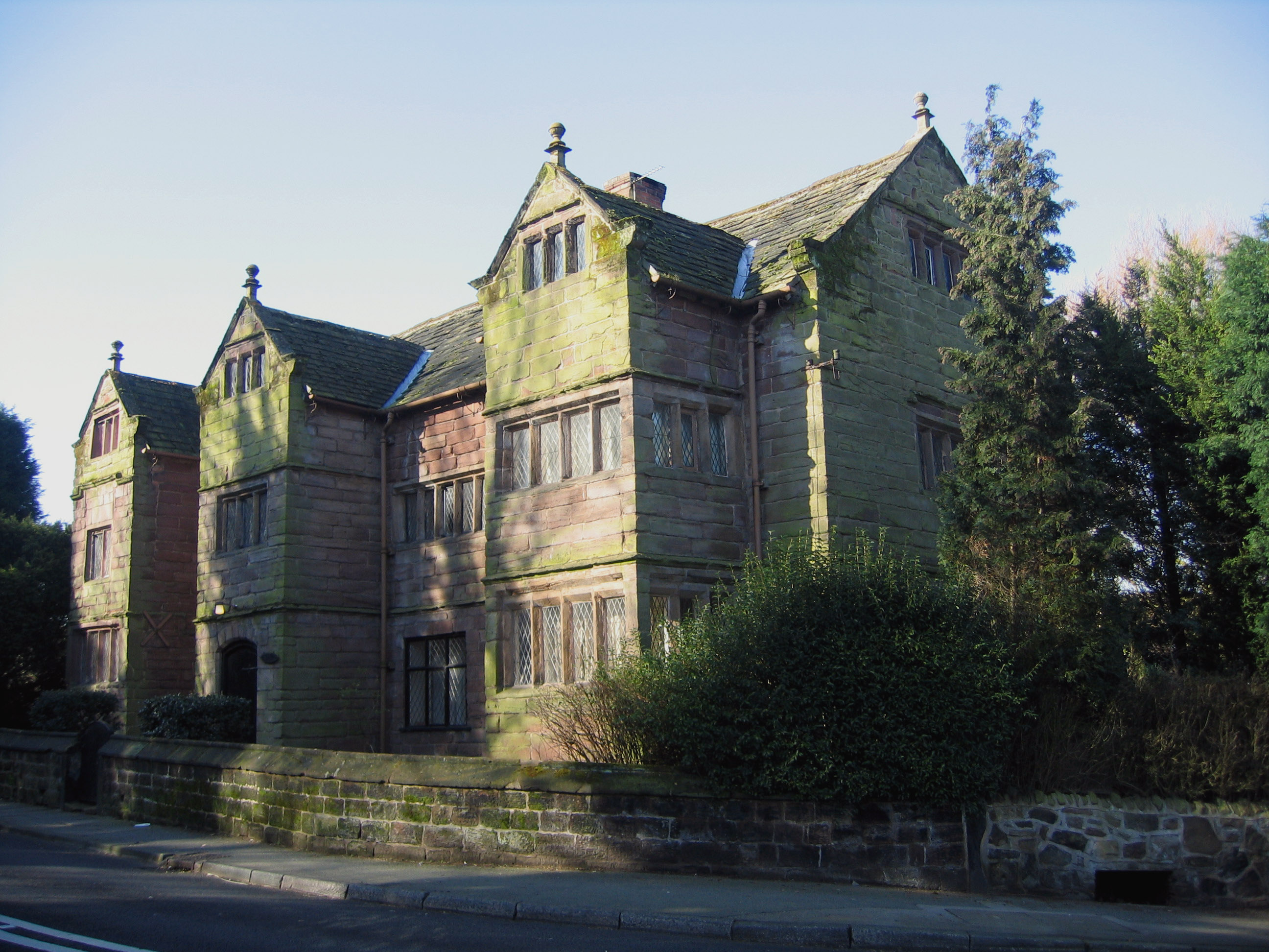 Photograph taken by me on 14 March 2007.